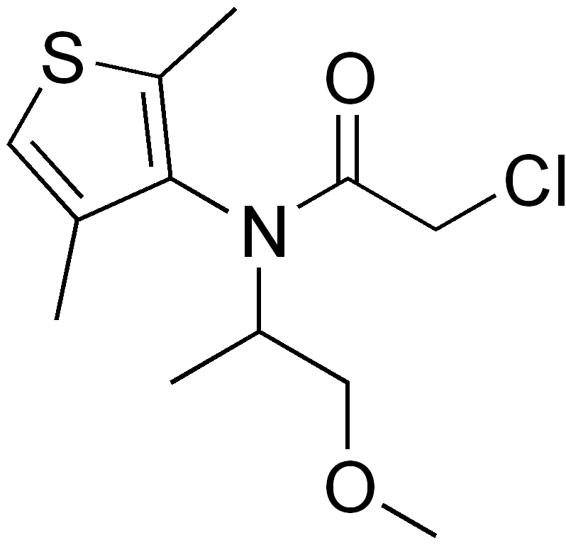 chemical structure of dimethenamid (Frontier Herbicide)